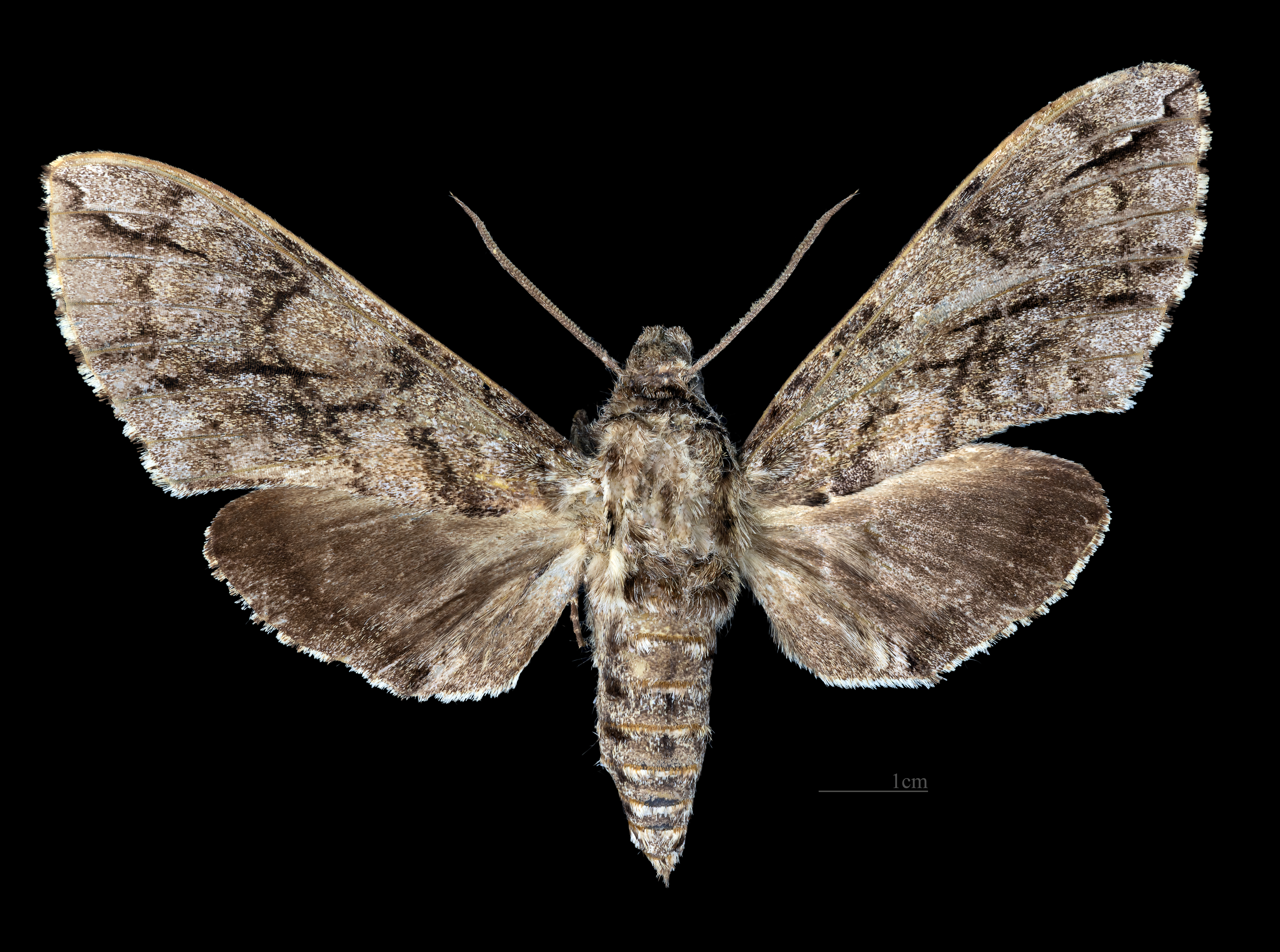 Ceratomia igualana - Dorsal side Collection of the Mathematician Laurent Schwartz